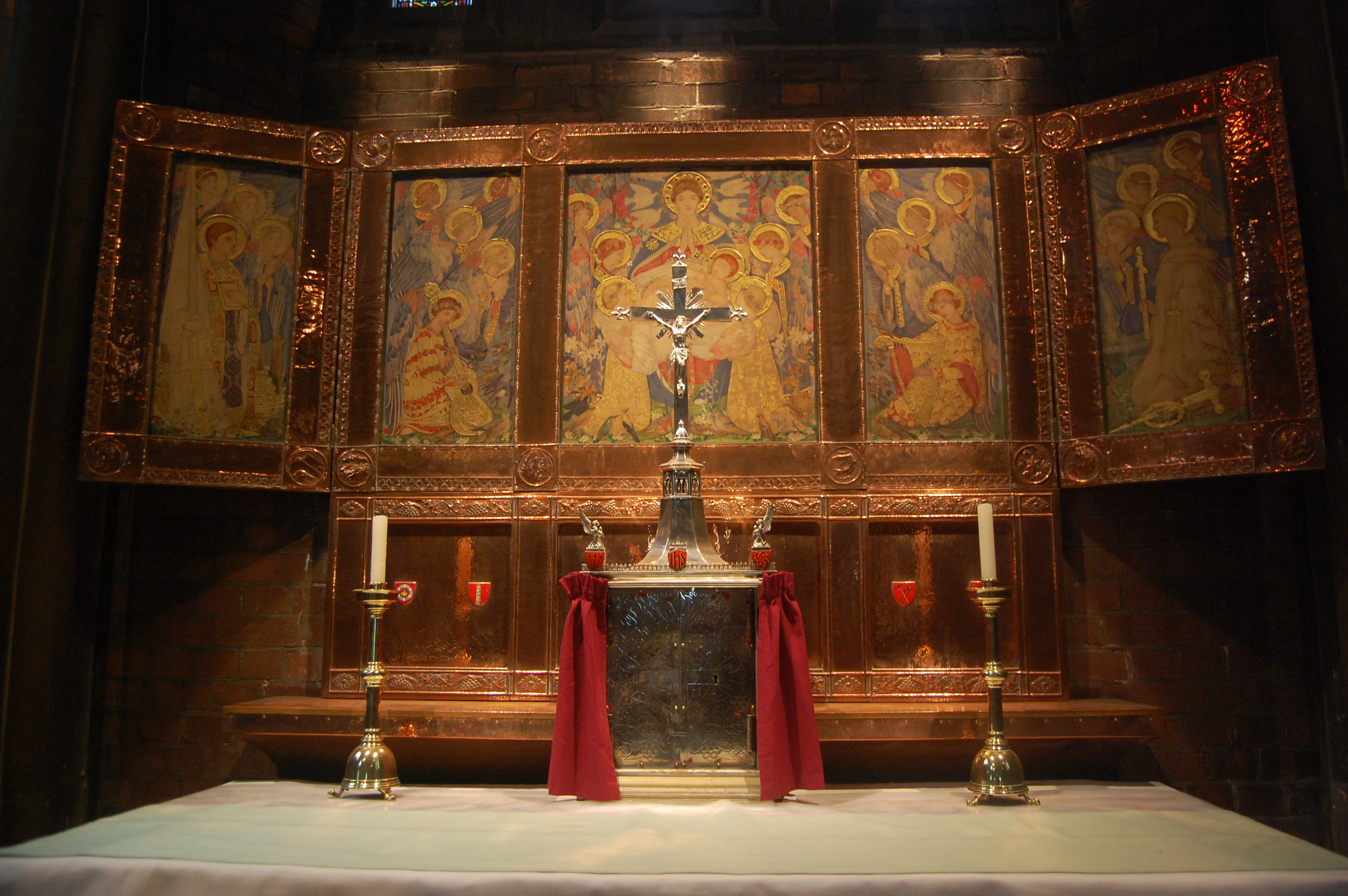 Reredos by Kate Bunce (painting; died 1927) and her sister Myra (copperwork), at St Alban the Martyr, Birmingham, England.